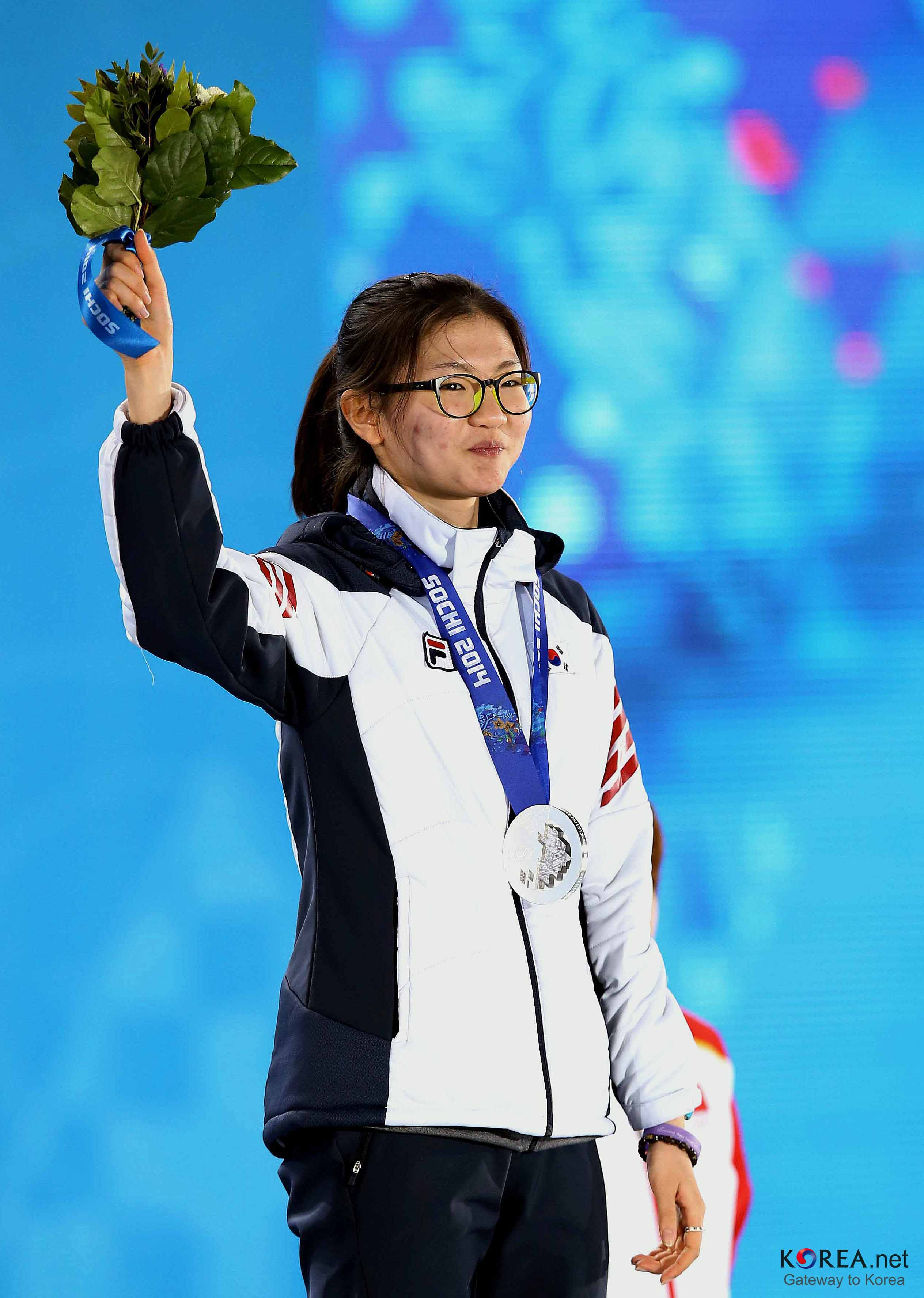 Shim Suk-hee won her first Olympic Medal in Sochi